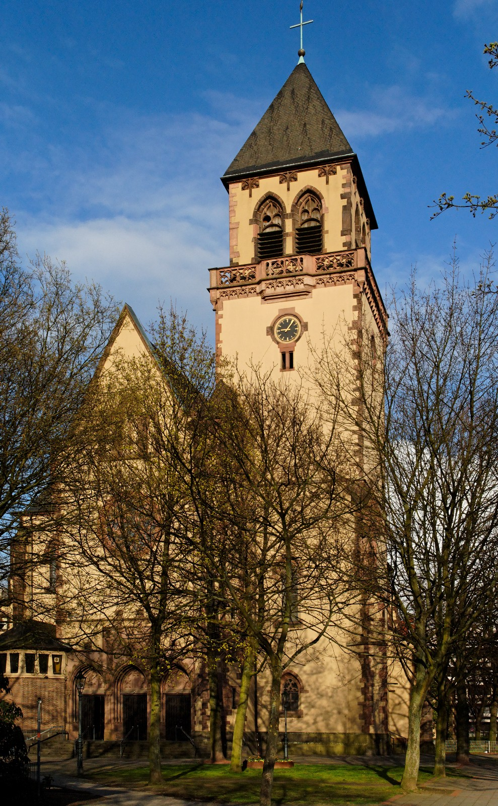 Saint Apollinaris in Düsseldorf-Oberbilk, Germany